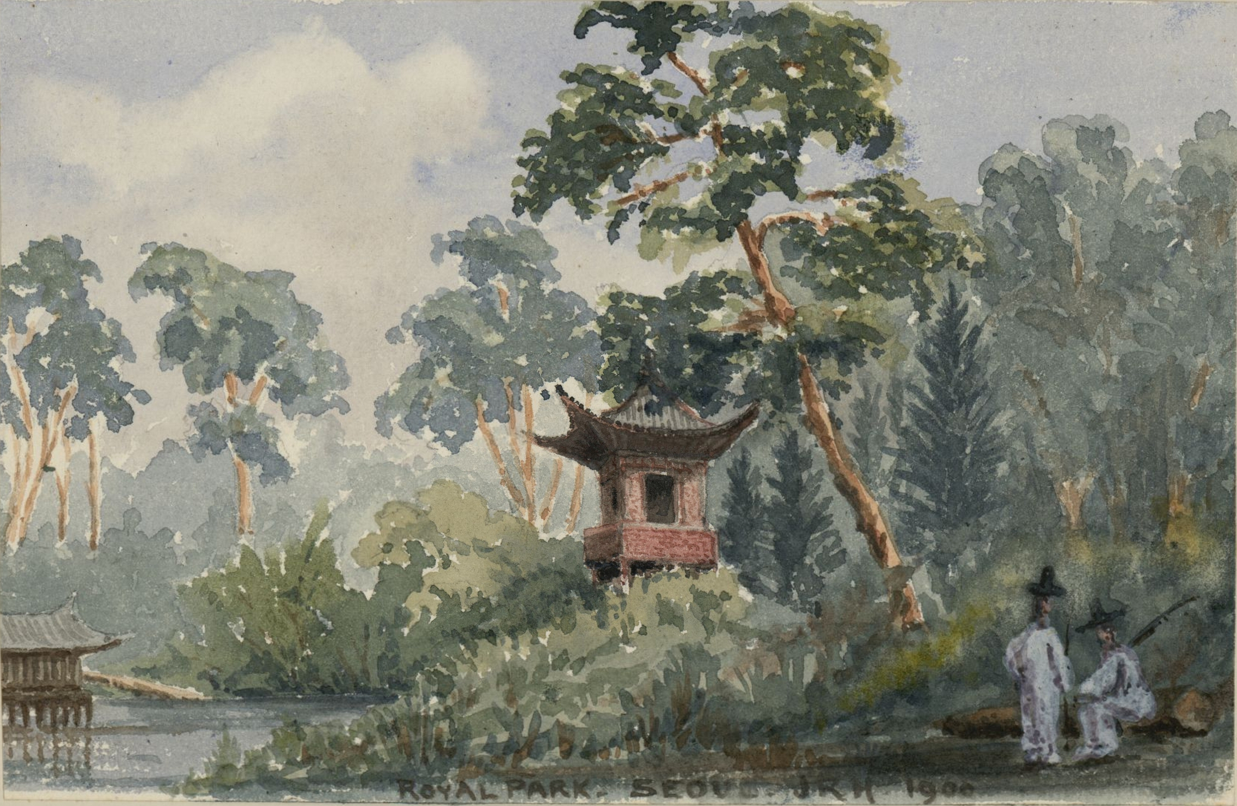 A volume of drawings of the Far East.